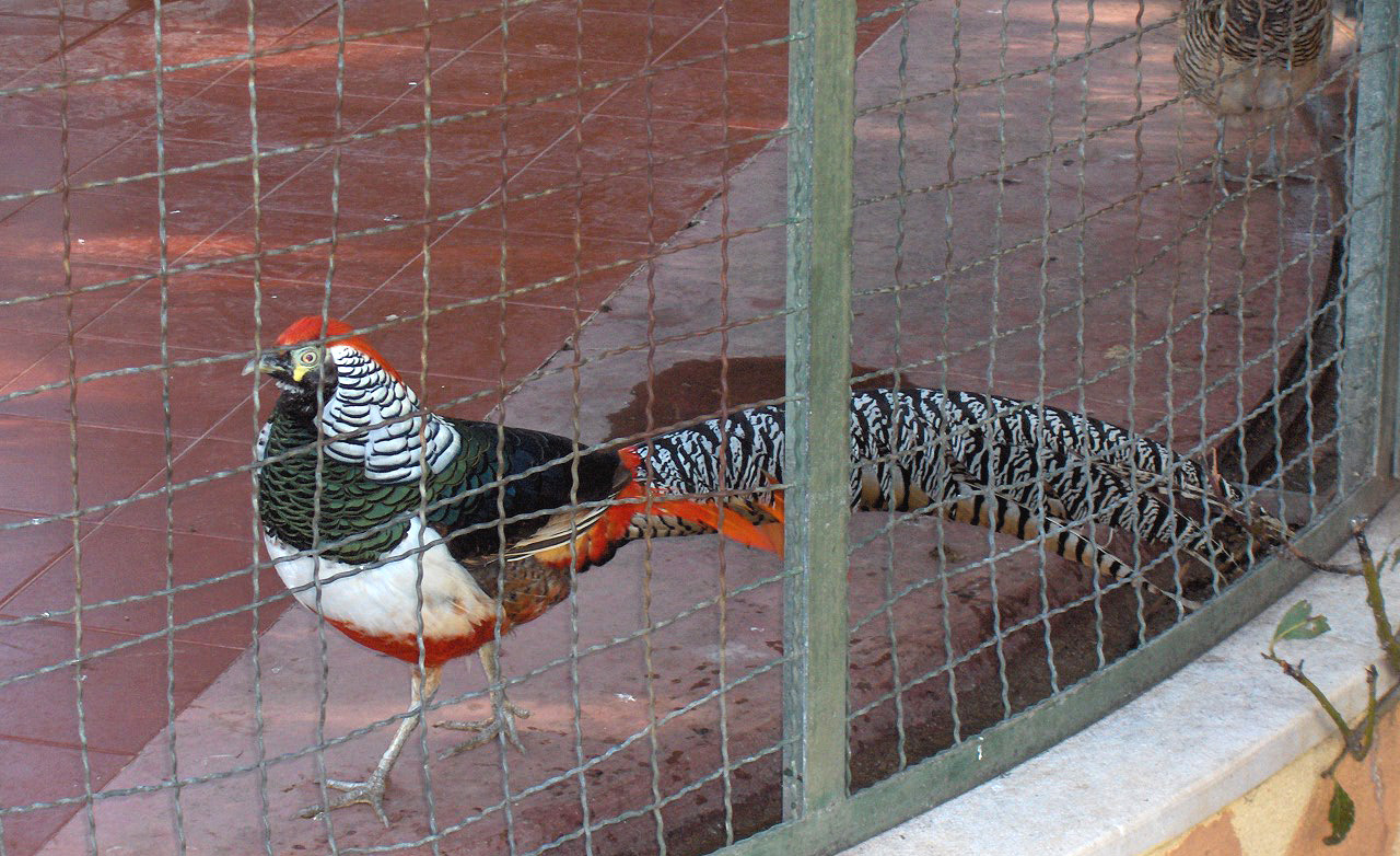 Lady Amherst's Pheasant (Chrysolophus amherstiae) at a minizoo in Cascais, Portugal